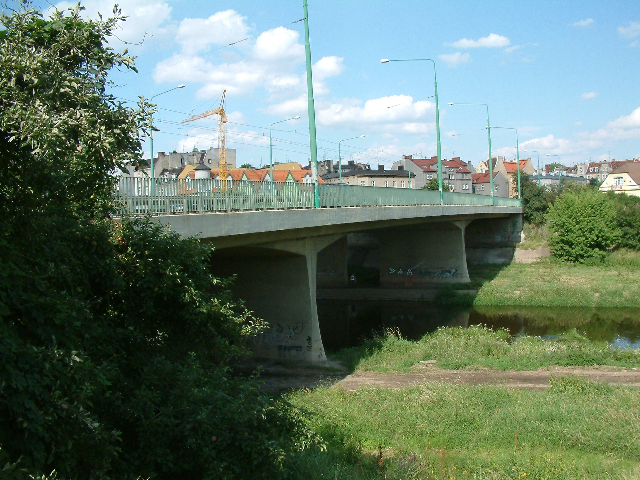 Mieszko I Bridge over Cybina (branch of Warta) in Poznań